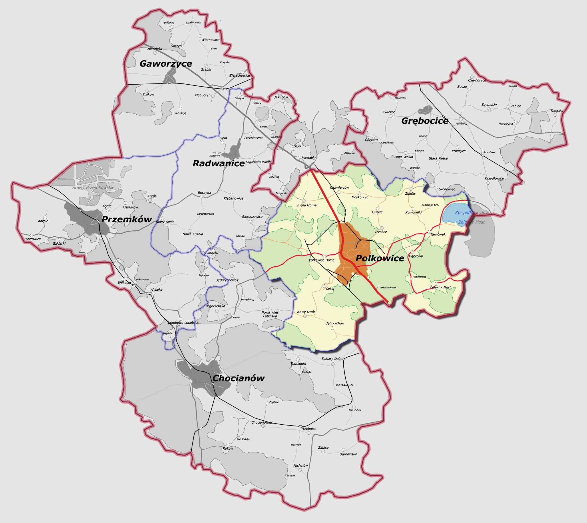 2006 by Jurij